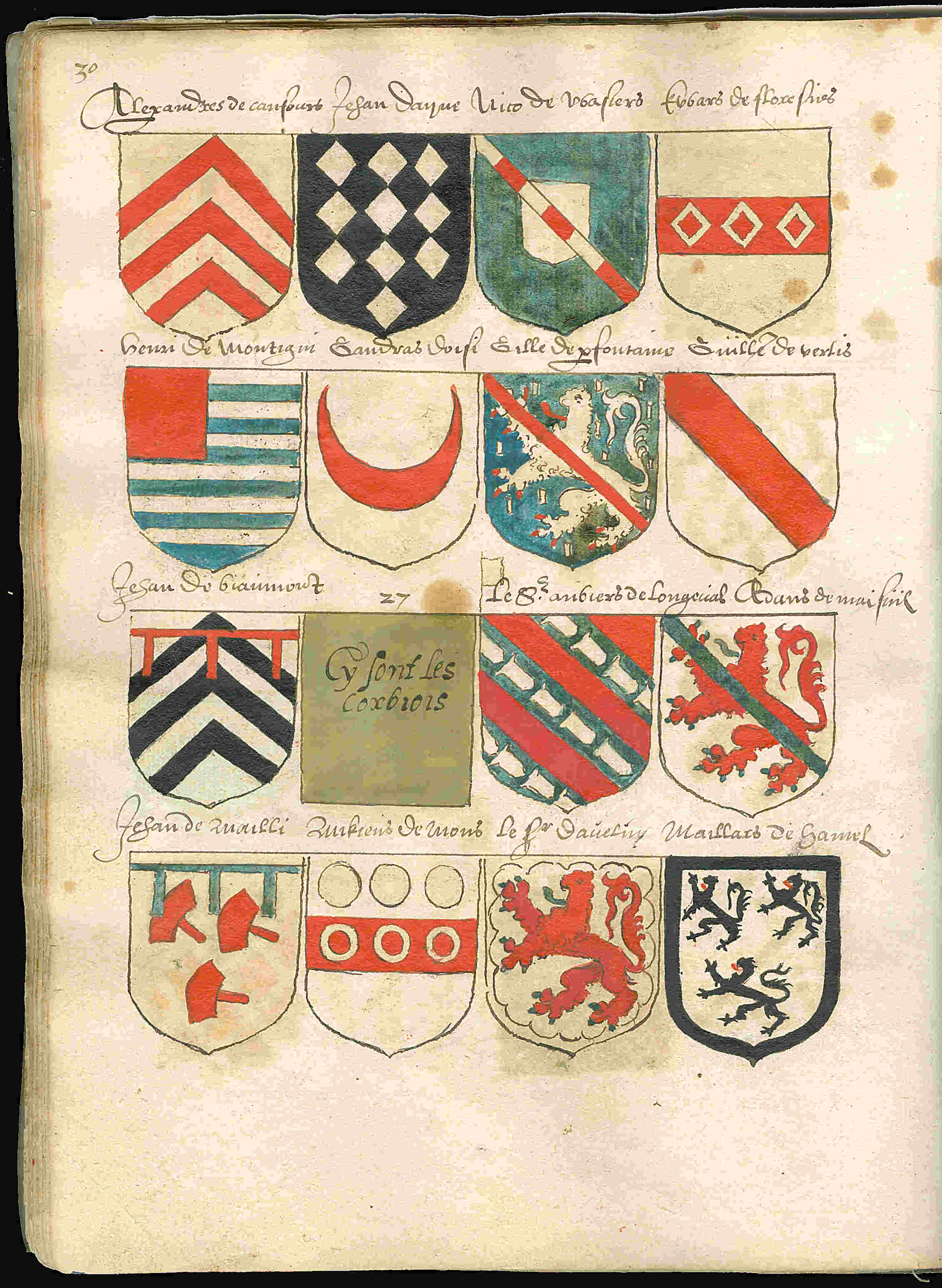 Page 30 from a copy of the Beyeren armorial / Wapenboek Beyeren from ca. 1600. The original Beyeren armorial from 1405 can be viewed at the website of the KB